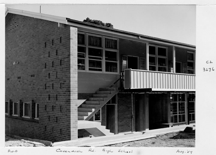 Cavendish Road State High School, Holland Park - Brisbane. (Original photo caption makes reference to Public Works Department)